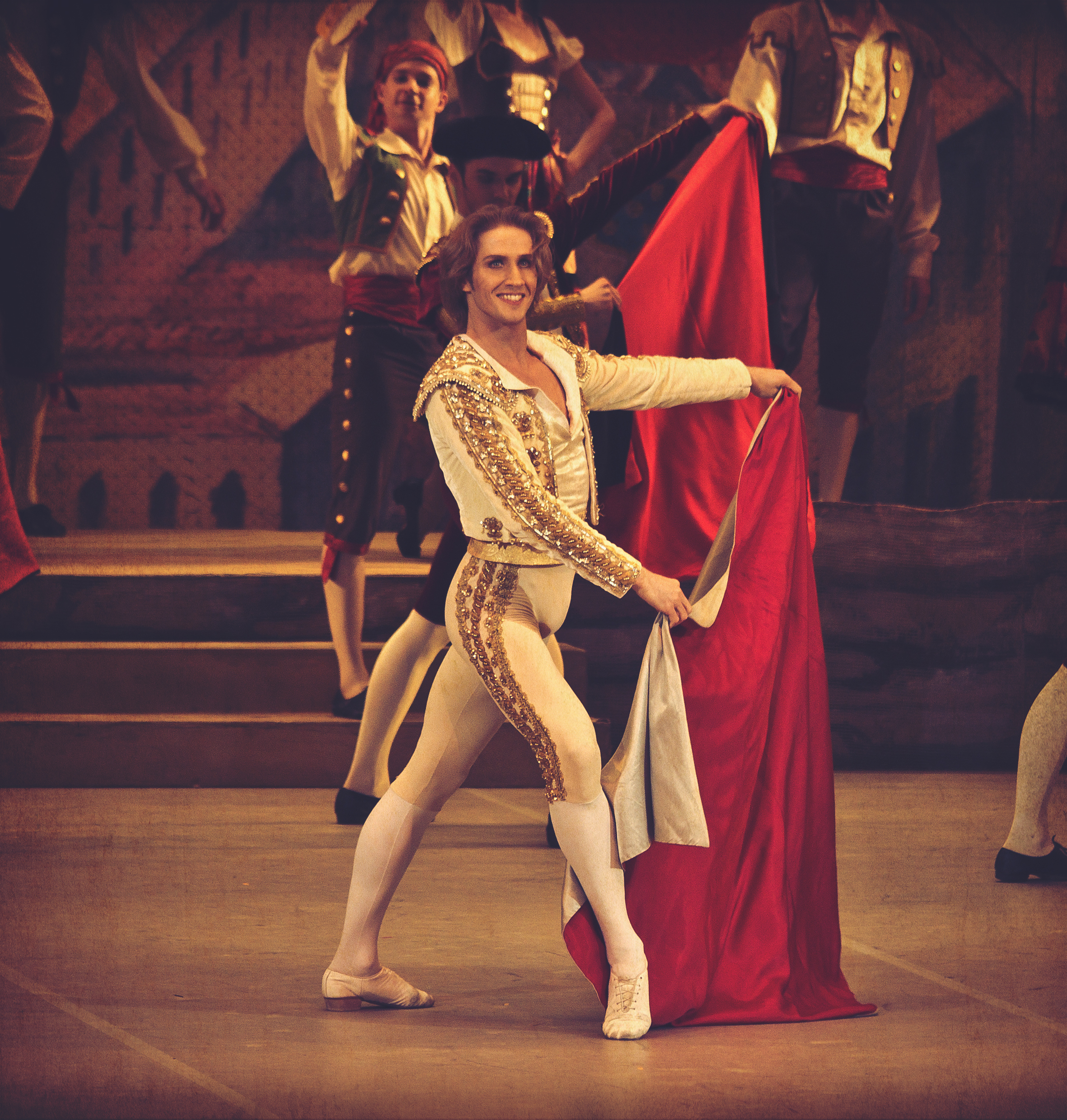 Andrey Merkuriev as Matador Don Quixote Bolshoi theater, 2011